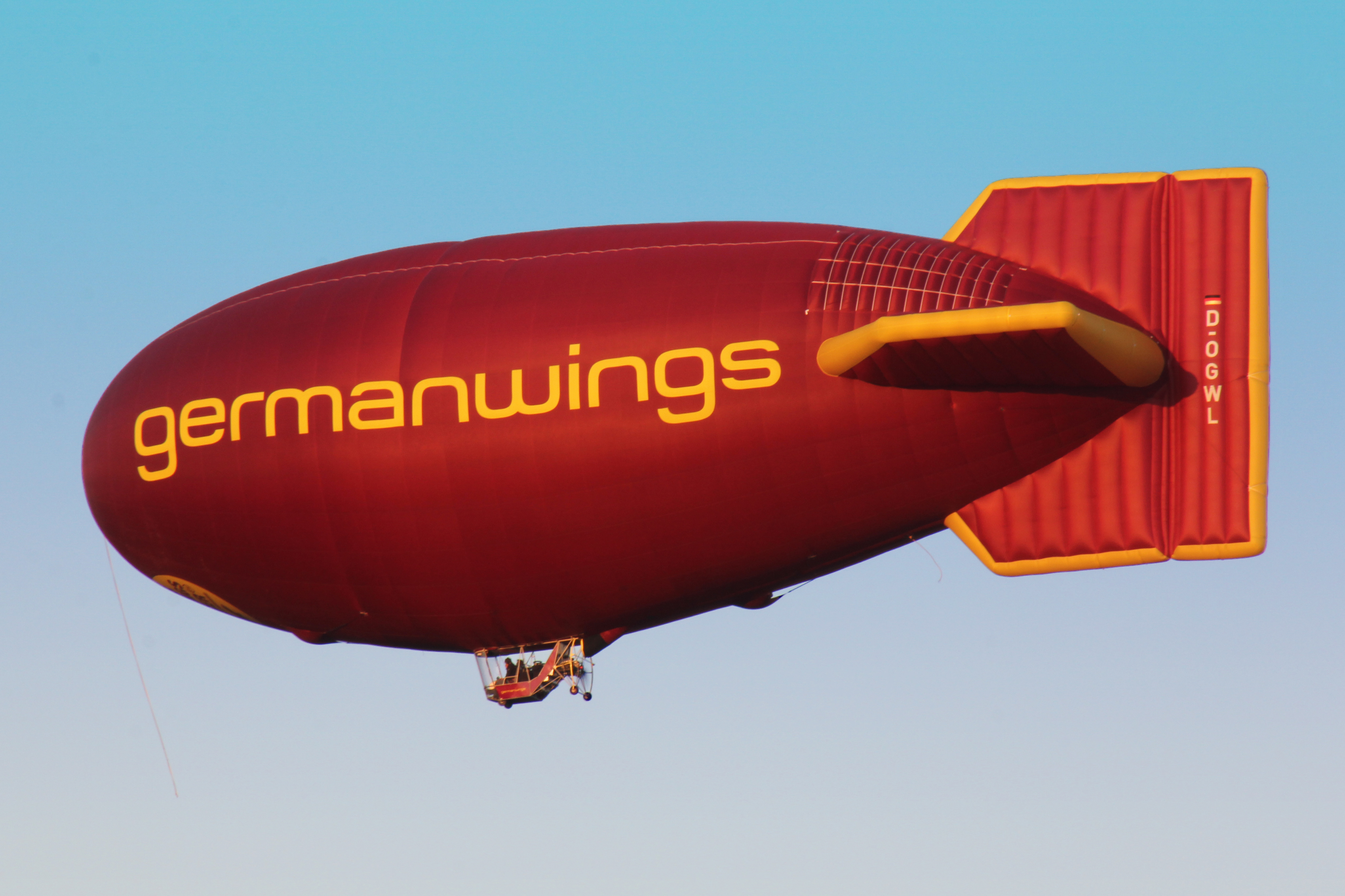 Thermal Airship over Cologne, Germany. Registration: D-OGWL